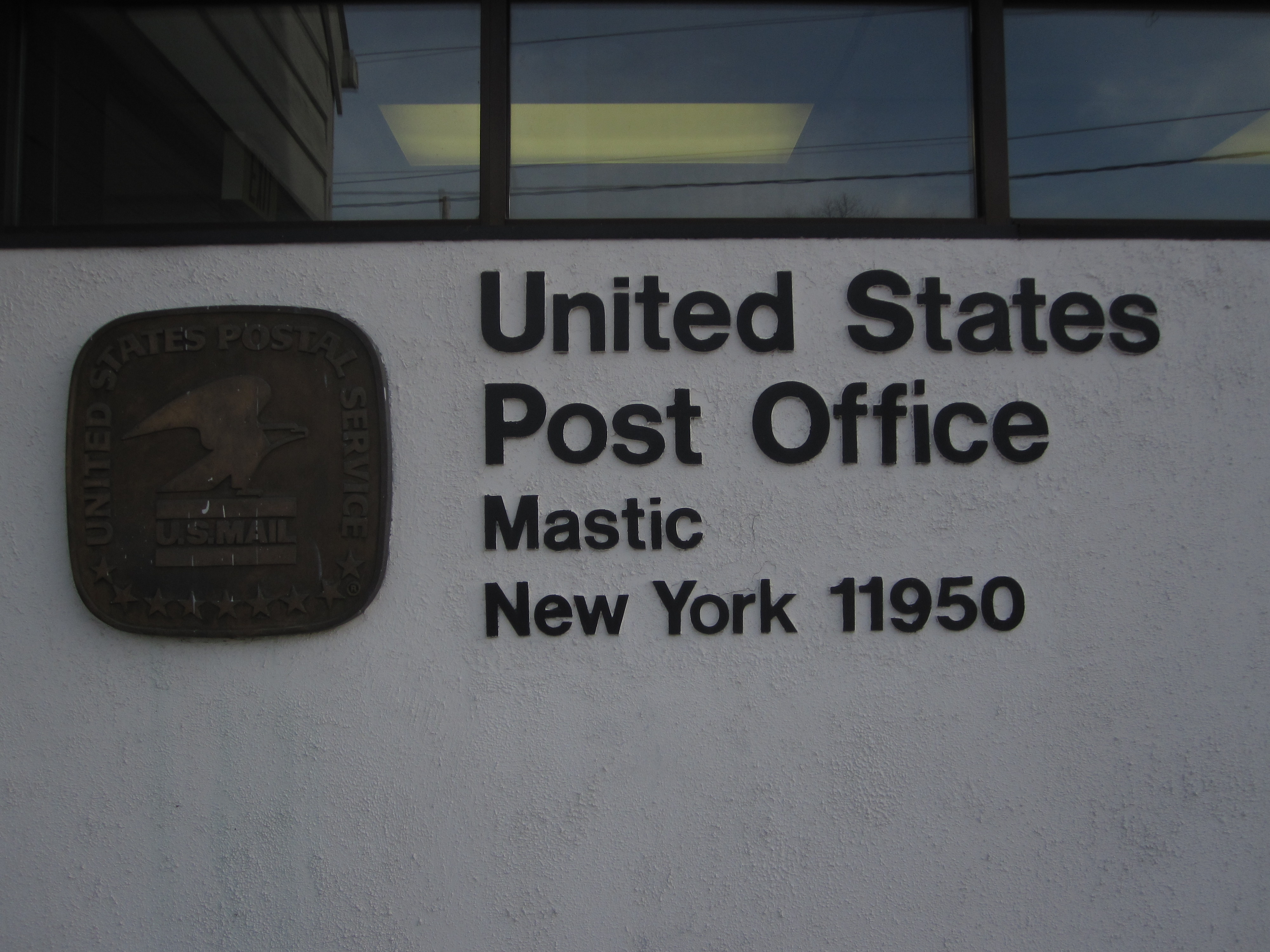 Mastic Area photo's by Steve-Van